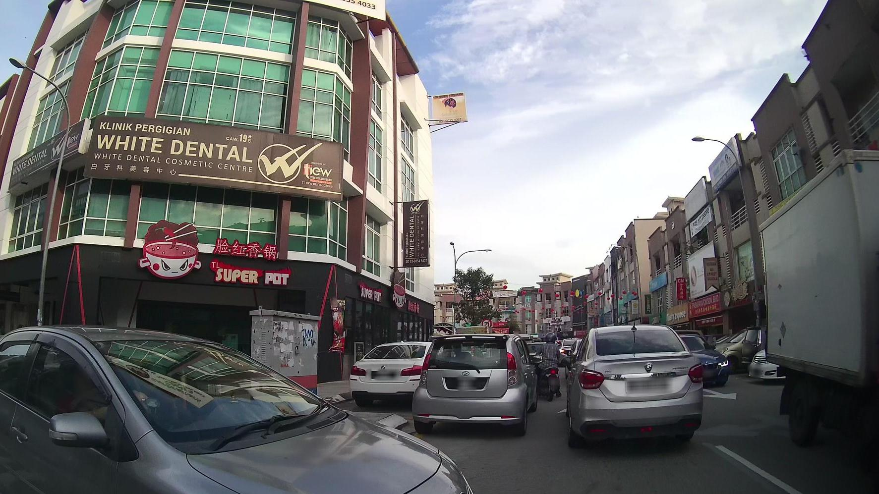 Sri Petaling shoplots